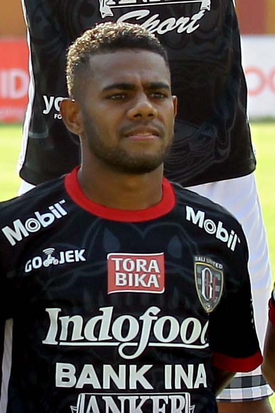 Laga home perdana GoJek Traveloka Liga 1 Madura United melawan Bali United Yang berakhir dengan skor 2-0 di Stadion Ratu Pamellingan Pamekasan, Jawa Timur, Minggu (16/04/2017) sore. Suci Rahayu